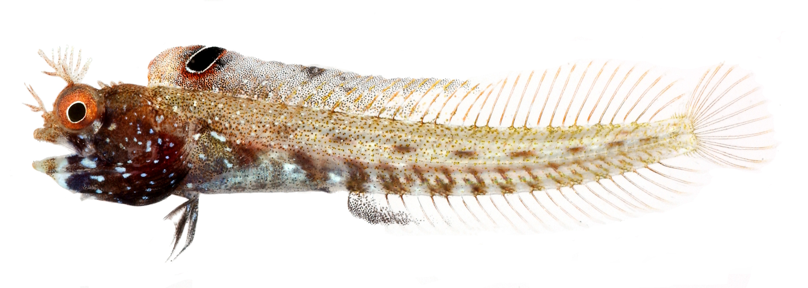 Description: The standard length of the adult male roughhead blenny is eighteen millimeters. This image was taken with a Nikon D1X 5.47-megapixel camera with a 105-millimeter f/2.8D AF Micro-Nikkor lens and dual Nikon SB28 flash units. Creator/Photographer: Belize Larval-Fish Group 2002 The Division of Fishes of the Smithsonian’s National Museum Natural History has sent several teams to Belize in order to photograph larvae in the field. The 2002 team included Julie H. Mounts, David G. Smith, Carole C. Baldwin, and James Van Tassell. Medium: Digital photograph Geography: Belize Date: 2002 Persistent URL: [1] Repository: National Museum of Natural History, Division of Fishes Image ID: C3-47